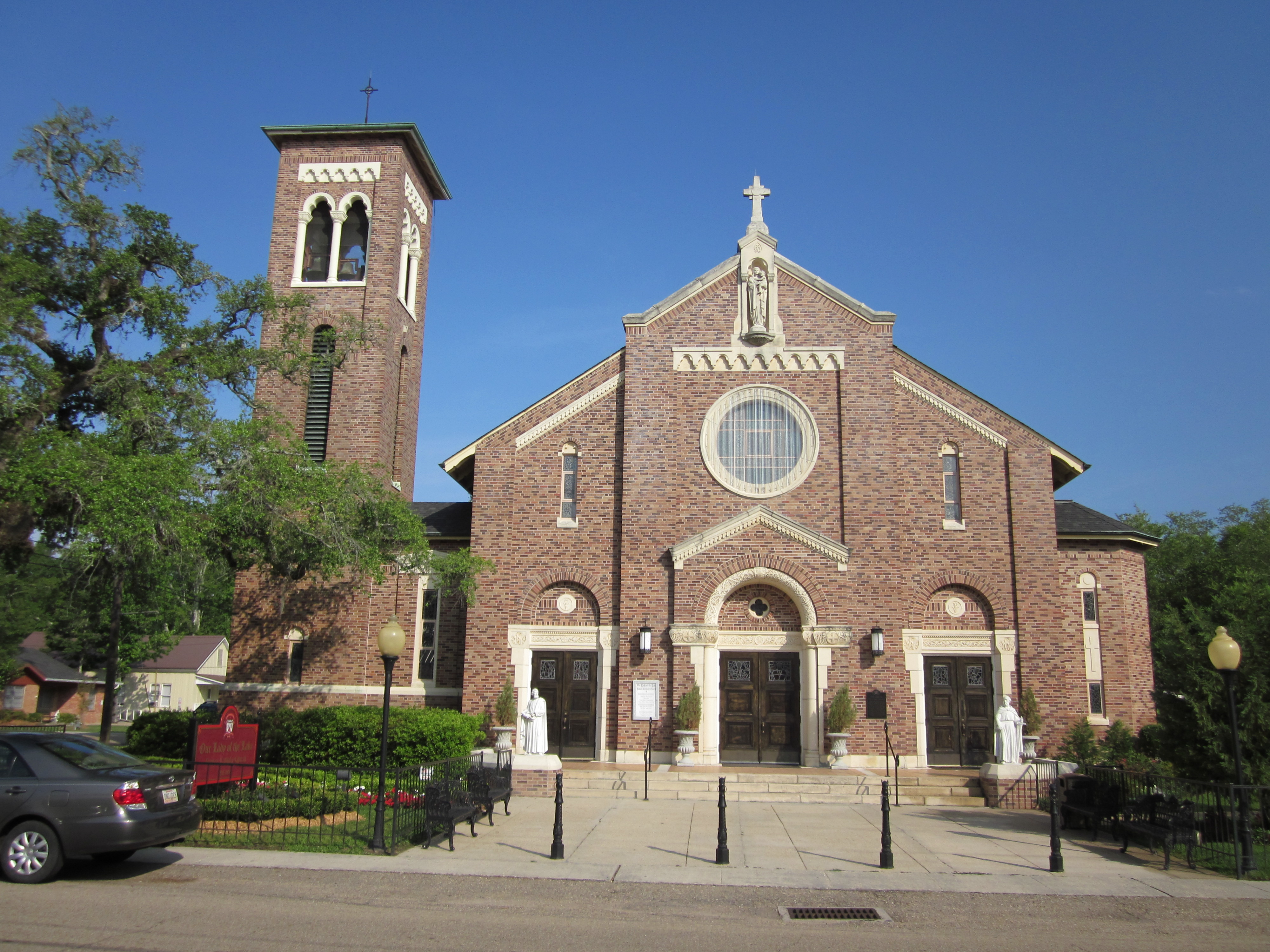 Mandeville, Louisiana. Our Lady of the Lake Roman Catholic Church. Front exterior view.